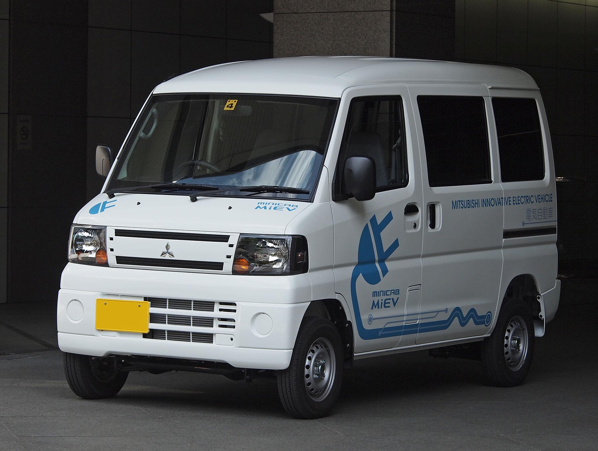 Mitsubishi Minicab MiEV Van, electric vehicle version of Minicab van.